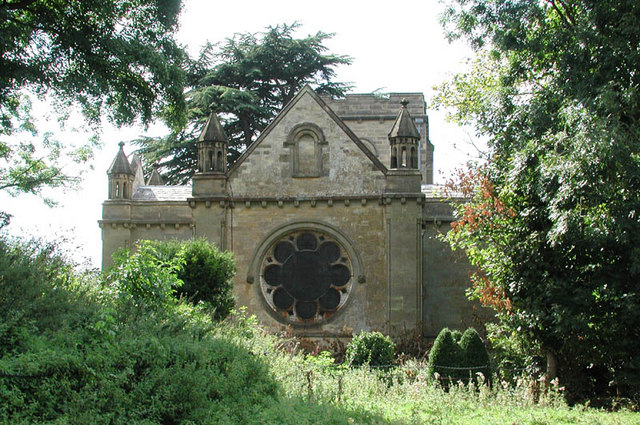 Holy Trinity, Old Wolverton, Bucks